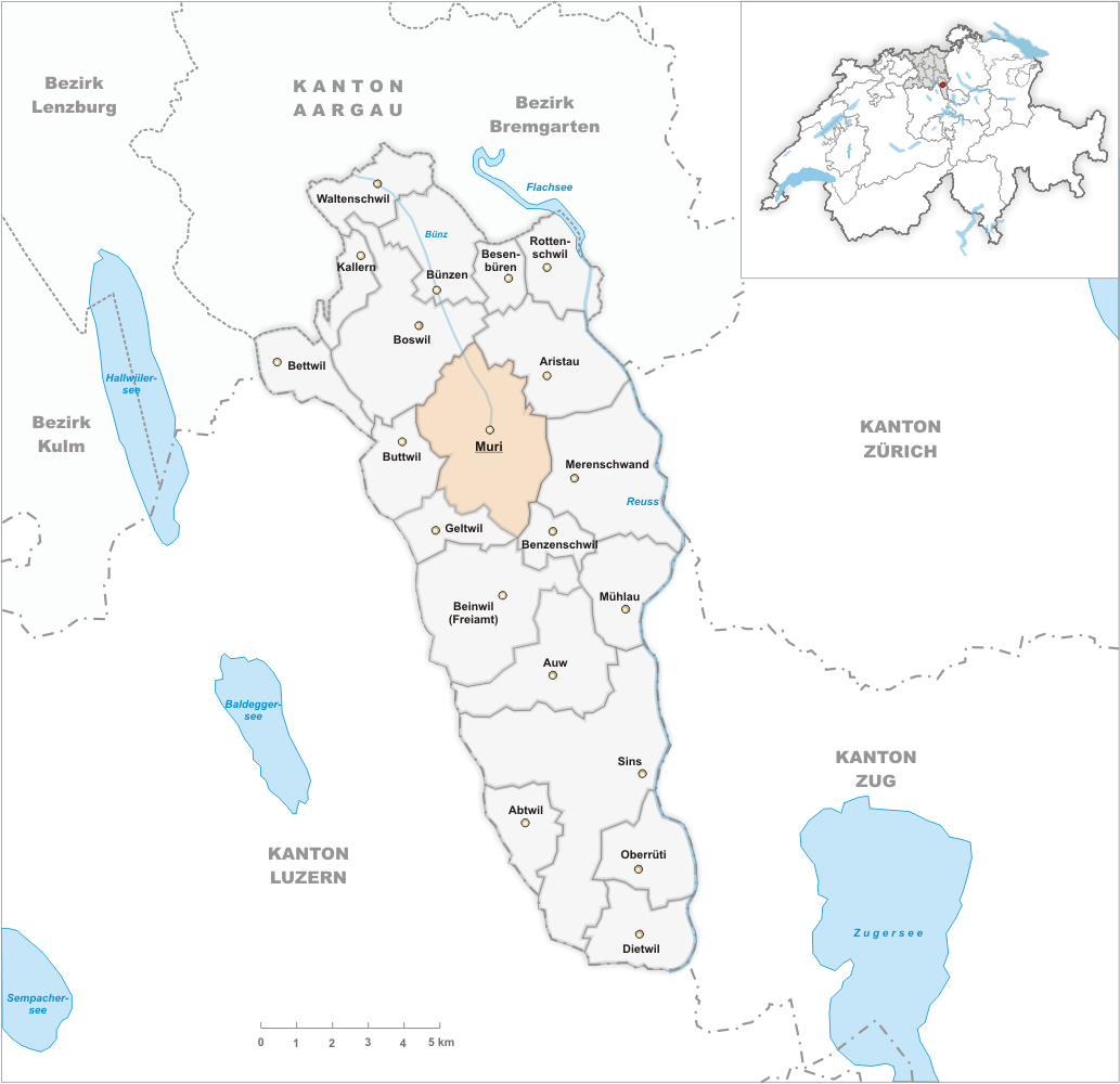 Municipality Muri